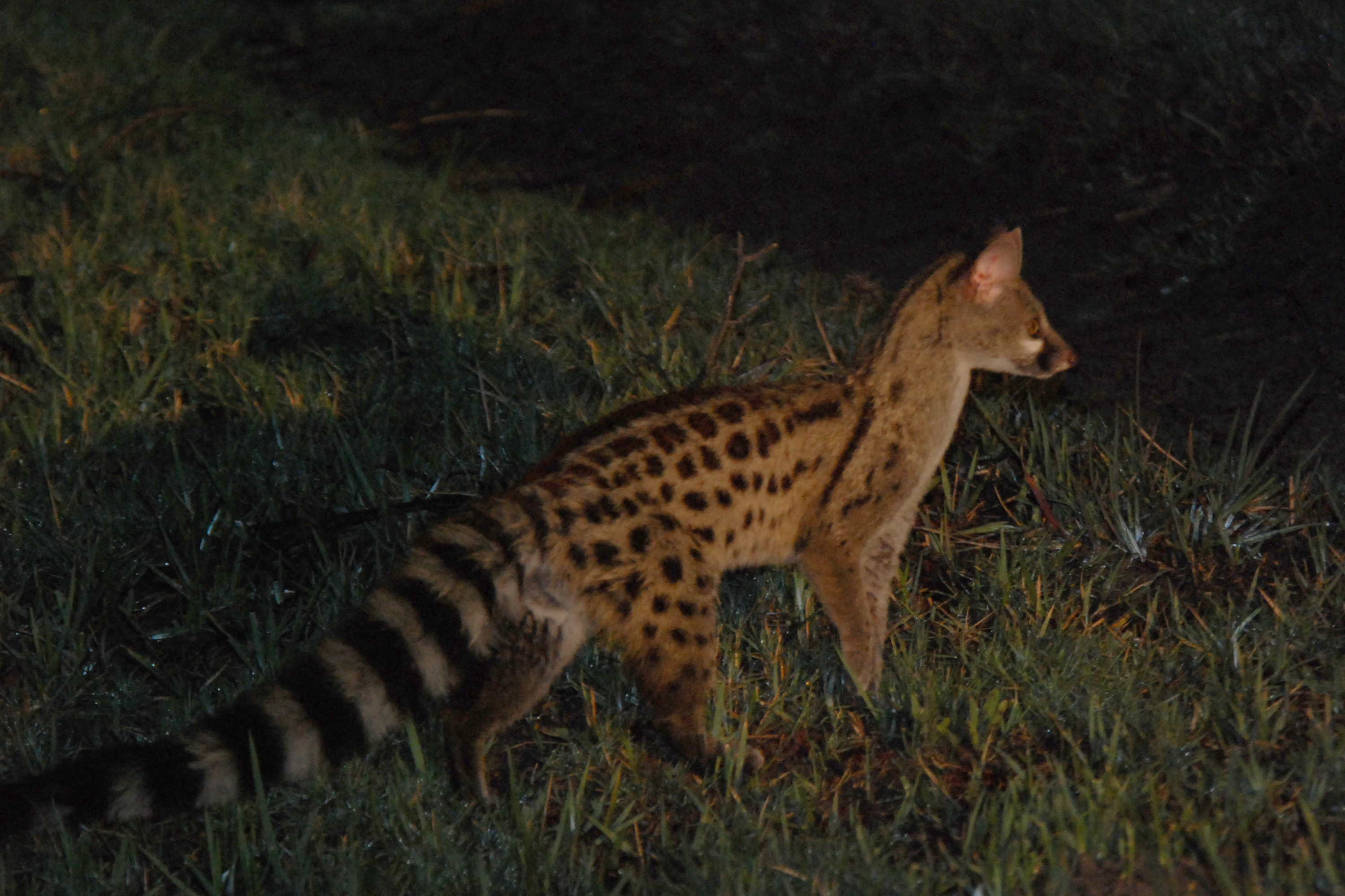 Seen at night near Little Kwara camp on the Okavengo Delta. It was hunting for insects in the grass. Reminds me of a cross between a raccoon and a cat....